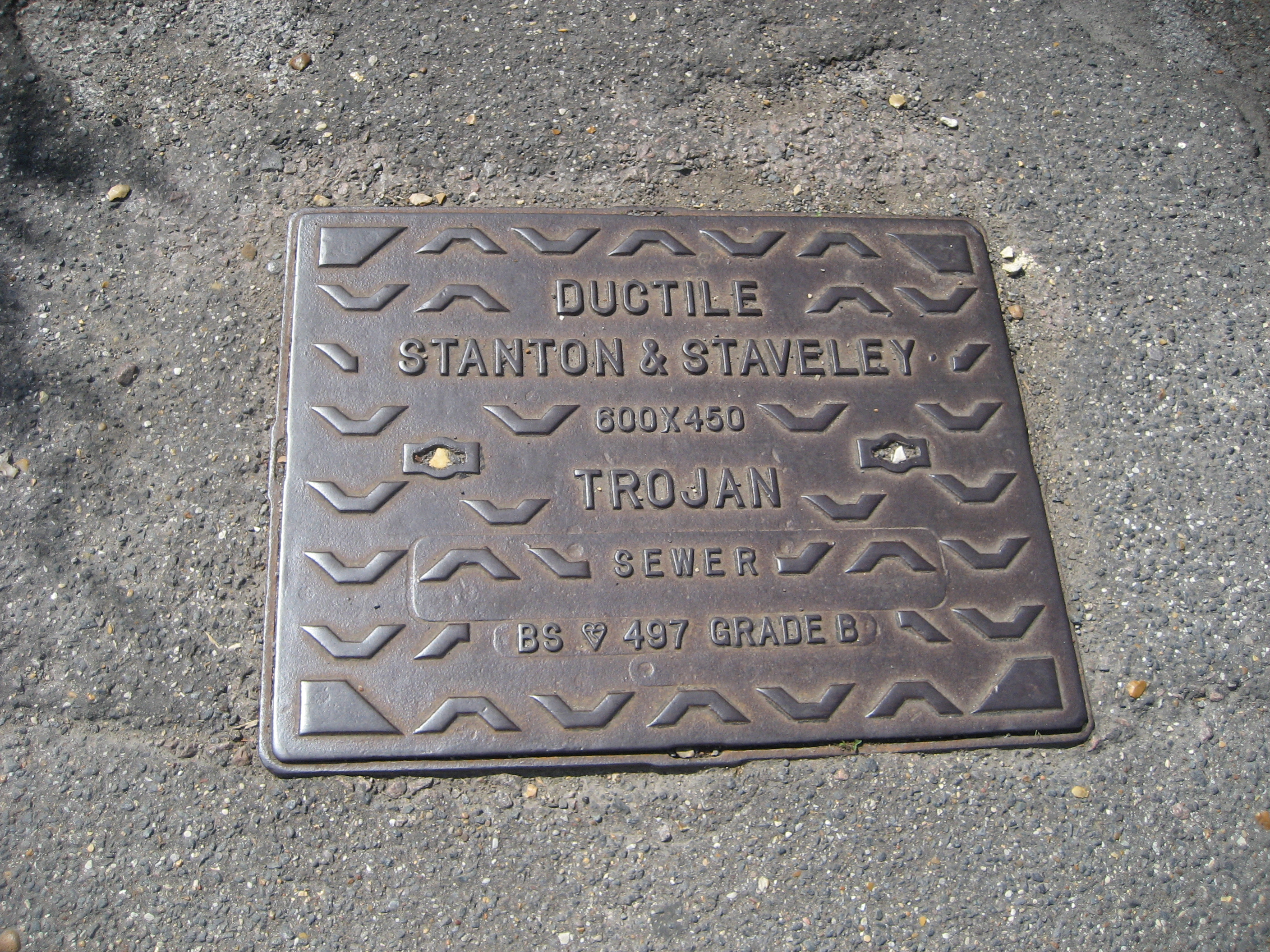 Manhole cover in Cambridge. The text reads: "Ductile Stanton & Staveley - 600 x 450 - Trojan - Sewer - BS 497 Grade B"